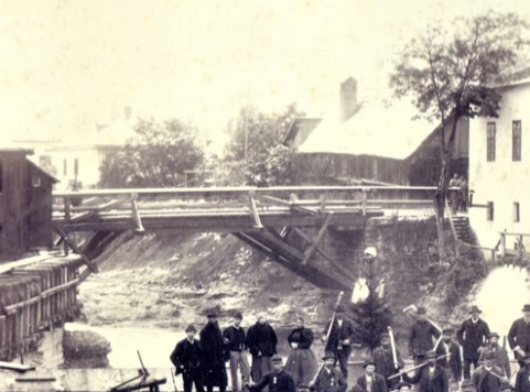 Heubergbrücke